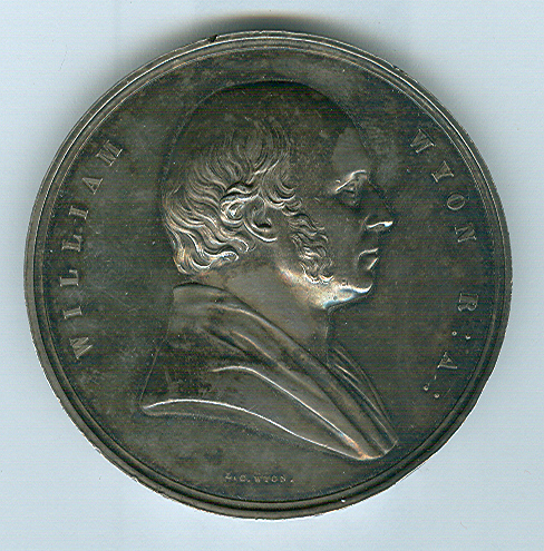 The obverse of a portrait medal of William Wyon (1795-1851) by his son Leonard Charles Wyon. This medal was privately minted in 1854